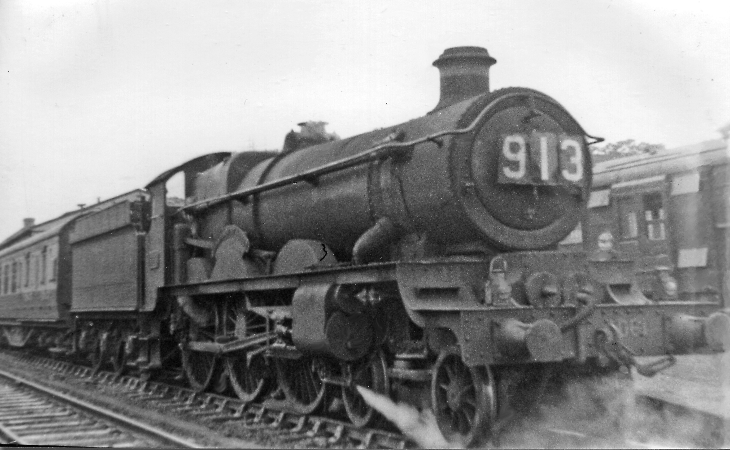 Portsmouth - Birmingham express at Basingstoke, with late-surviving ex-GW 'Star' 4-6-0. View westward, towards Southampton, Bournemouth, Weymouth, also Salisbury, Exeter etc.: ex-LSW main line from Waterloo, joined here by the ex-GW line from Reading etc. The 13.11 Portsmouth Harbour to Birmingham Snow Hill joined the LSW main line at Eastleigh and will run via Reading West Curve and Oxford to Birmingham. The Churchward 'Star' is No. 4061 'Glastonbury Abbey', built 5/22 and withdrawn 3/57.